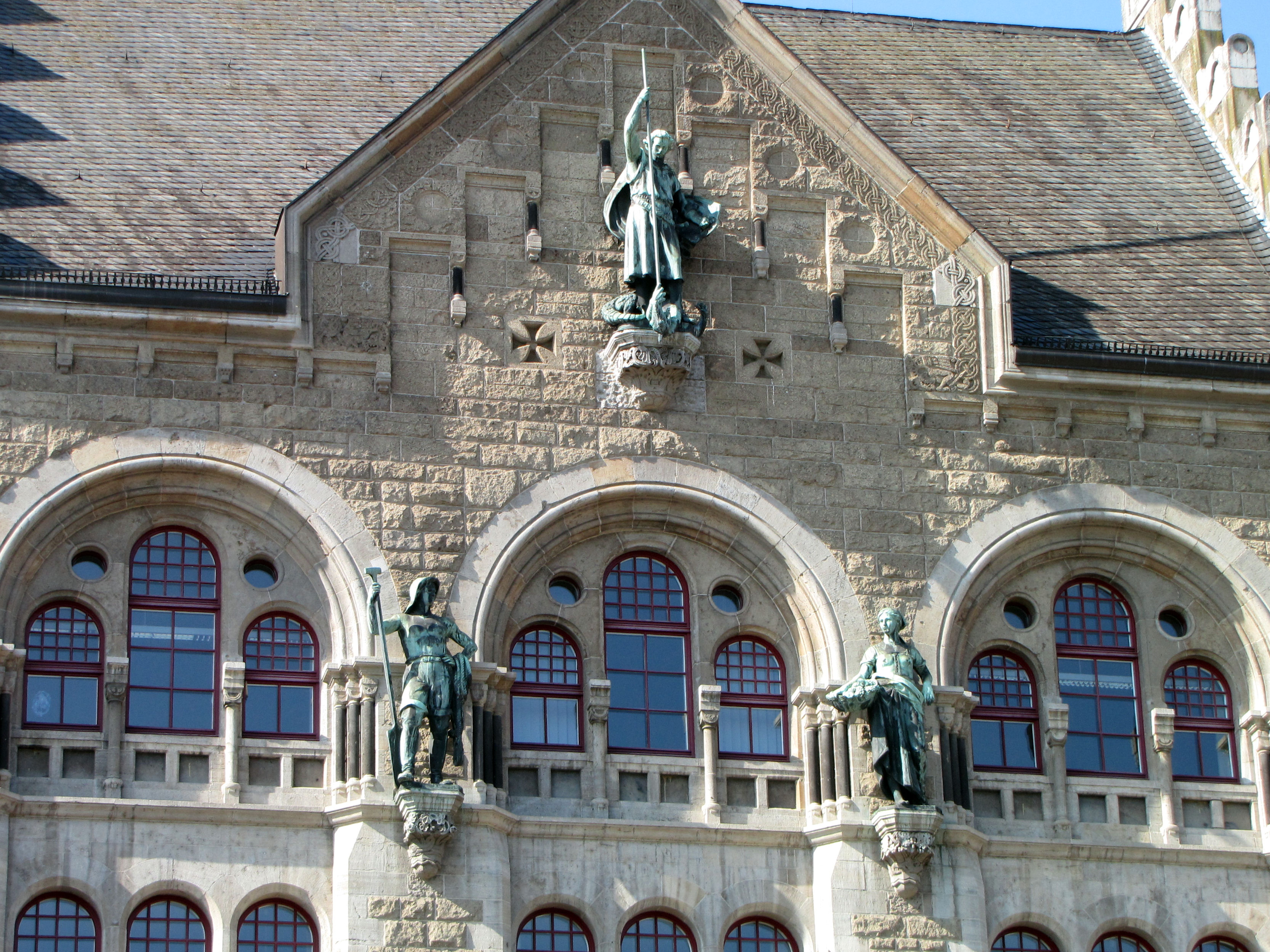 Sculptures at former prussian gouvernment building of the Rhine Province in Koblenz